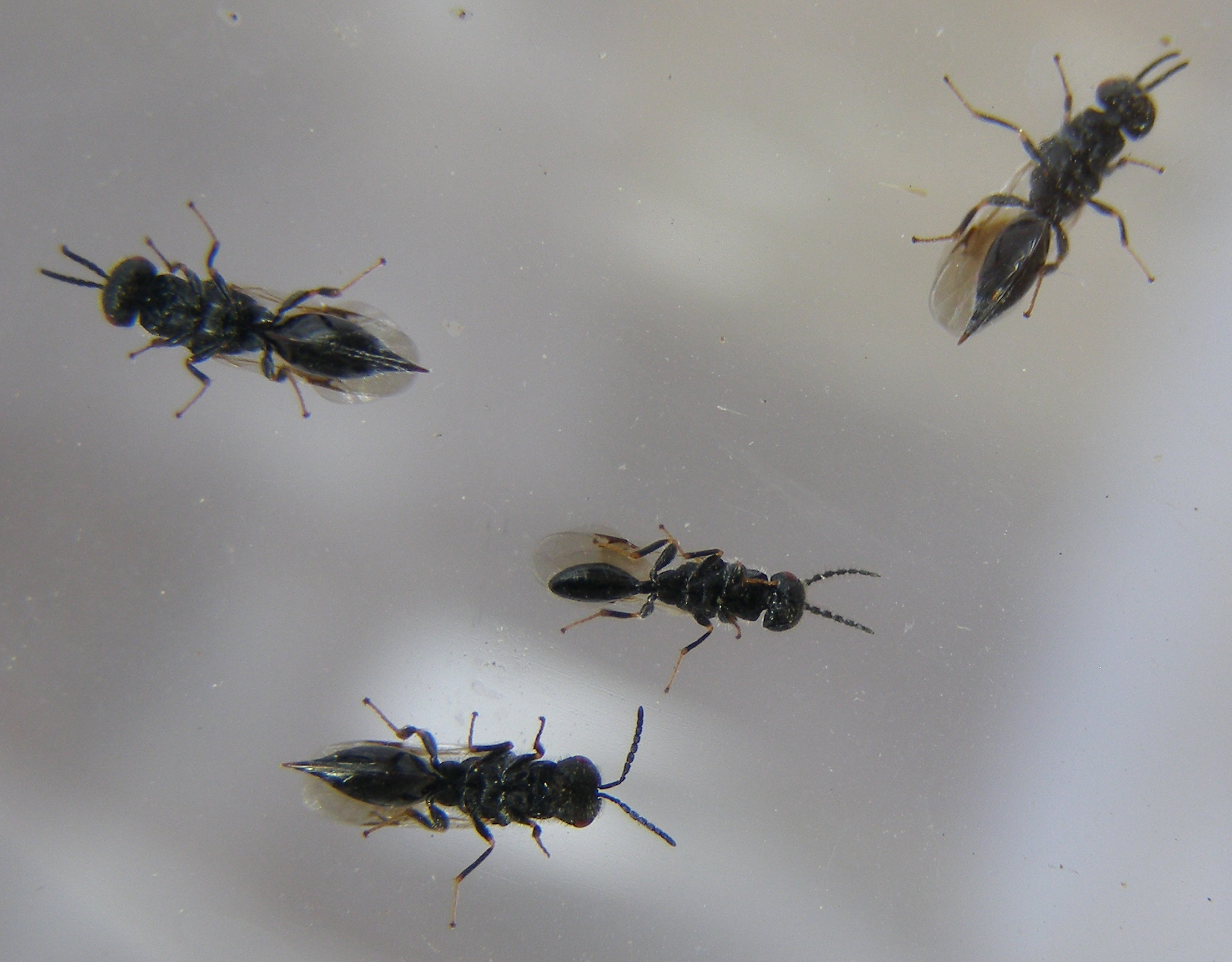 Eurytoma amygdali in captivity, 1 male et 3 females, ventral view.